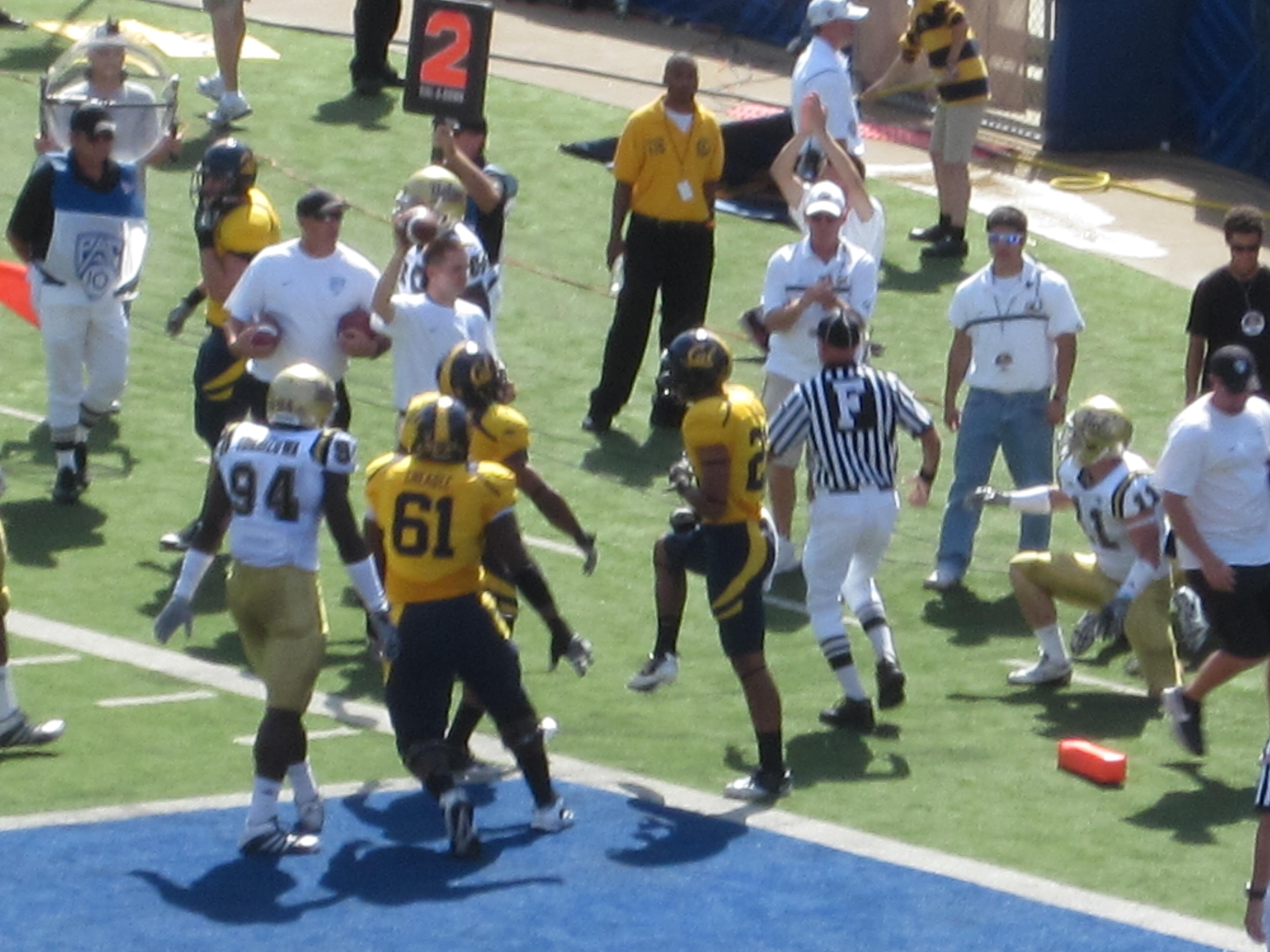 Cal running back Shane Vereen scores a touchdown during a home game against the UCLA Bruins in Berkeley. The Golden Bears won 35-7.